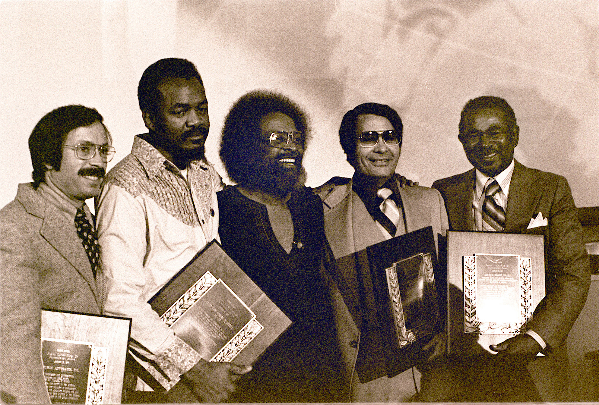 January 1977 photo by Nancy Wong. Reverend Jim Jones of Peoples Temple (2nd from right) is one of the recipients who is given a Martin Luther King, Jr. Humanitarian Award at Glide Memorial Church, 330 Ellis Street by Reverend Cecil Williams (3rd from right) in San Francisco. From left is Bob Gnaizda of Public Advocates, Inc.; Mack Lyons of United Farm Workers Union; and at far right is Dr. Carlton B. Goodlett, publisher of the San Francisco Sun Reporter.